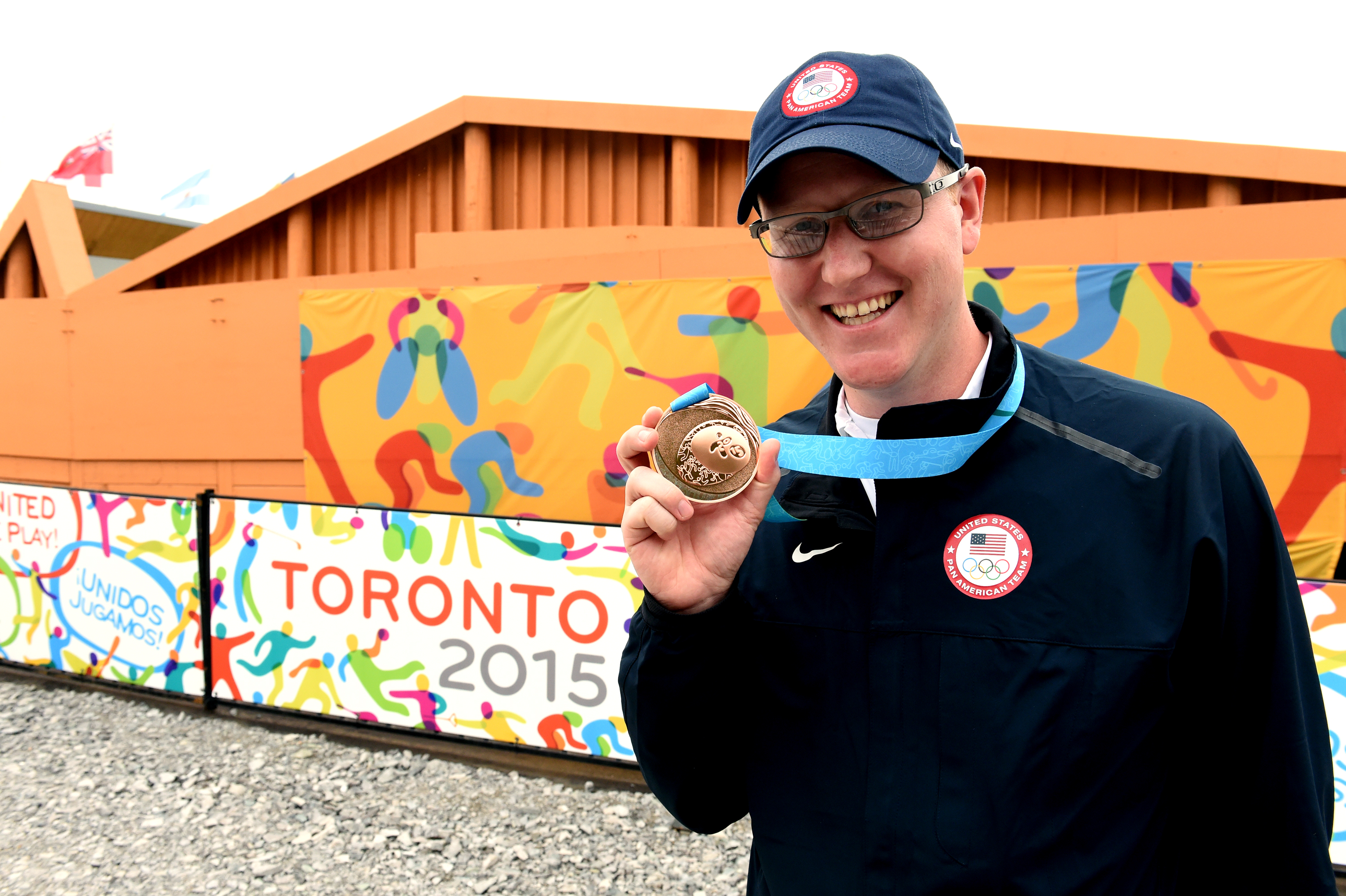 U.S. Army World Class Athlete Program marksman Spc. Bryant Wallizer, a graduate of West Virginia University from Little Orleans, Md., flashes his bronze medal in 10-meter air rifle at the 2015 Pan American Games. He set a Pan American Games record of 624.9 in qualification before dropping to third place in "a dogfight" finals. U.S. Army photo by Tim Hipps, IMCOM Public Affairs